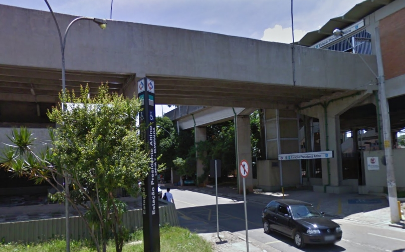 Entrance to the President Altino station belonging to the line 8 - Diamond CPTM in São Paulo, Brazil.